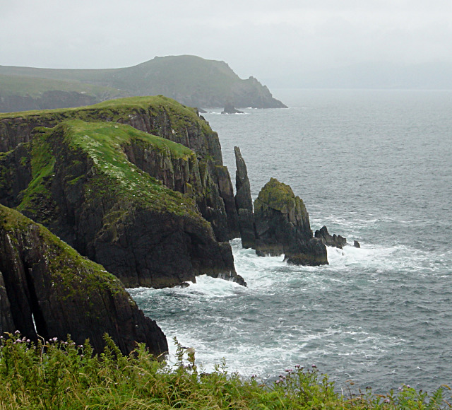 Stacks at Doonsheane Head A short section of coastal path, where access is (unusually for this area) permitted for walkers, gives some precipitous views down the cliffs to the surging sea, particularly around this geo at Doonsheane Head where the waves have cut deeply into the cliffs, isolating a group of stacks. In the further distance, Bull's Head has similar features, including a more isolated stack.